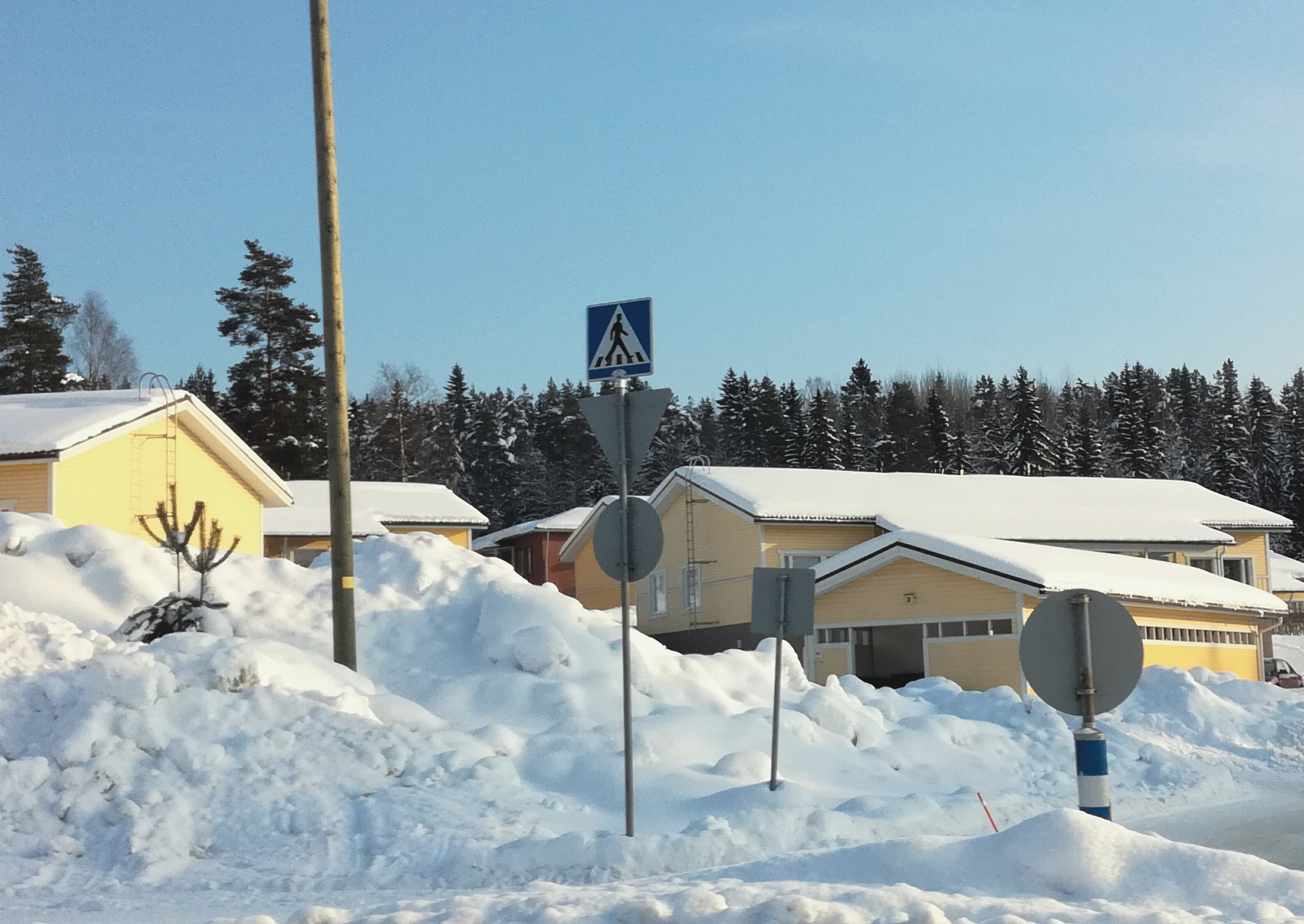 Houses in Rasinrinne